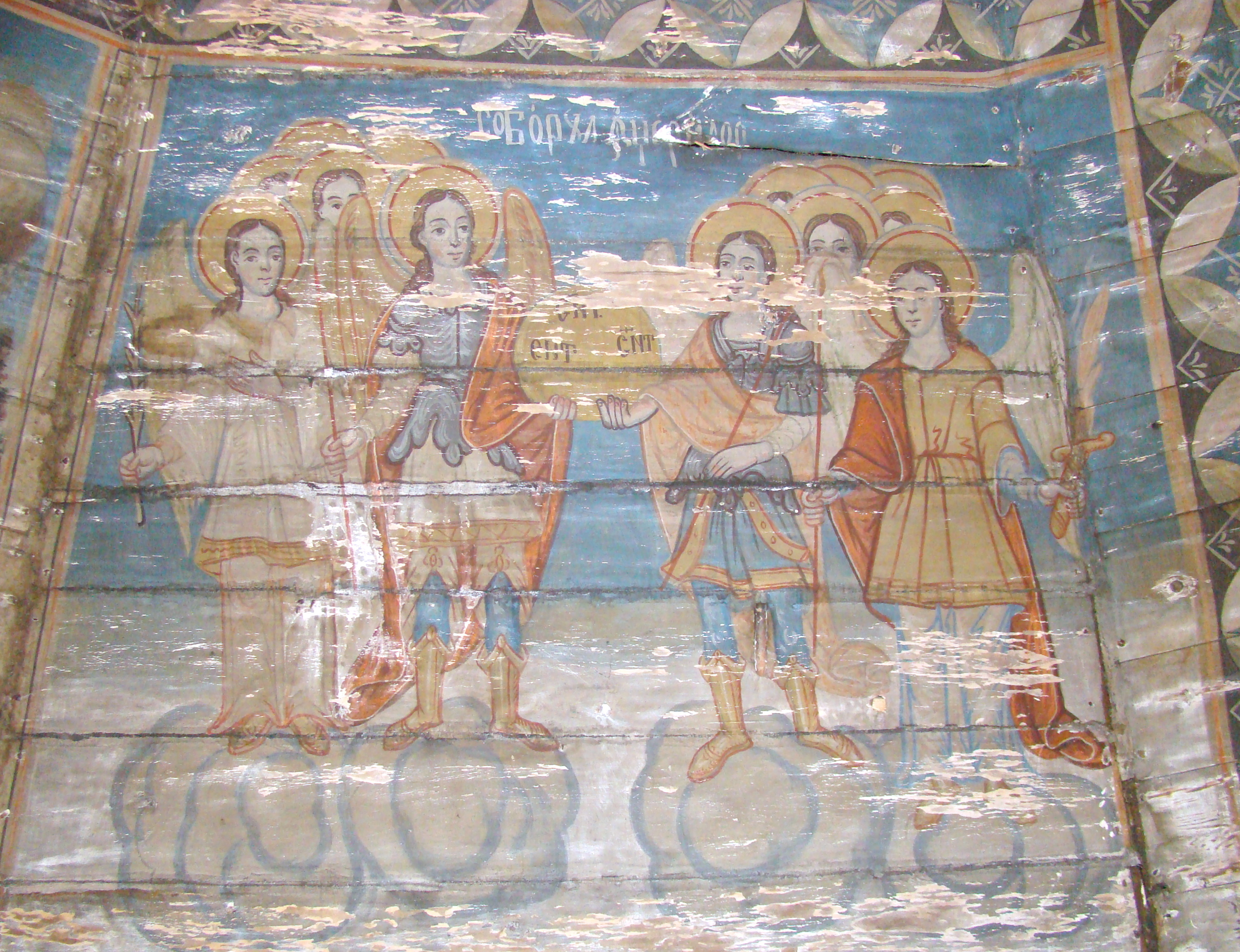 Wooden church in Roșia Nouă, Arad county, Romania